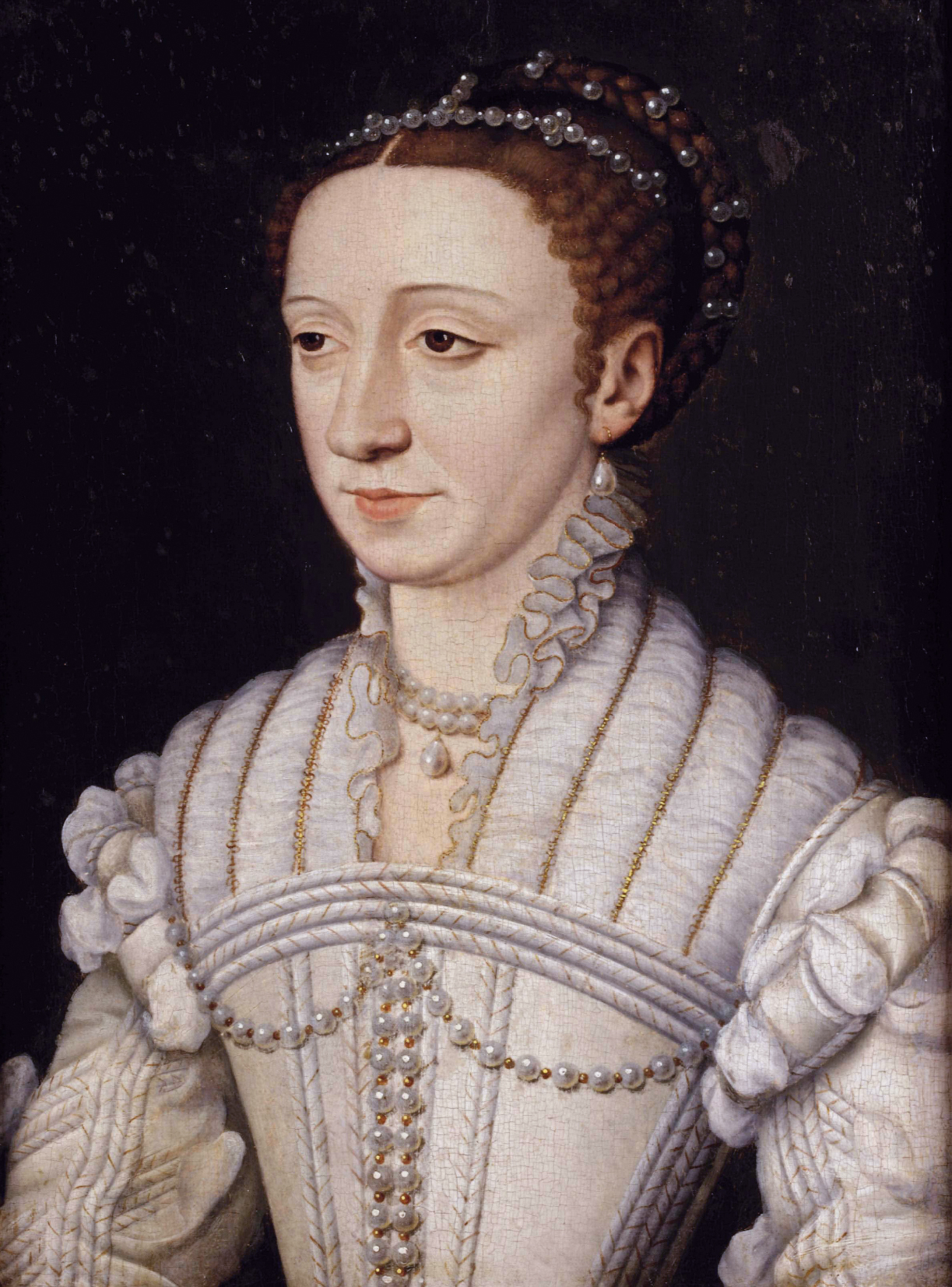 Margaret of France, Duchess of Berry (1523-1574), later Savoie